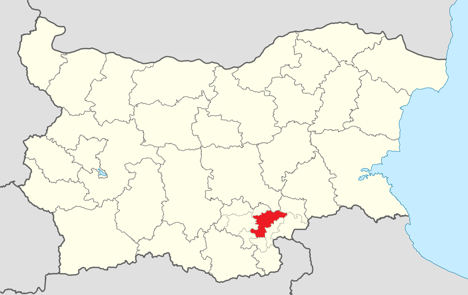 Location map of Harmanli Municipality within Bulgaria and Haskovo Province